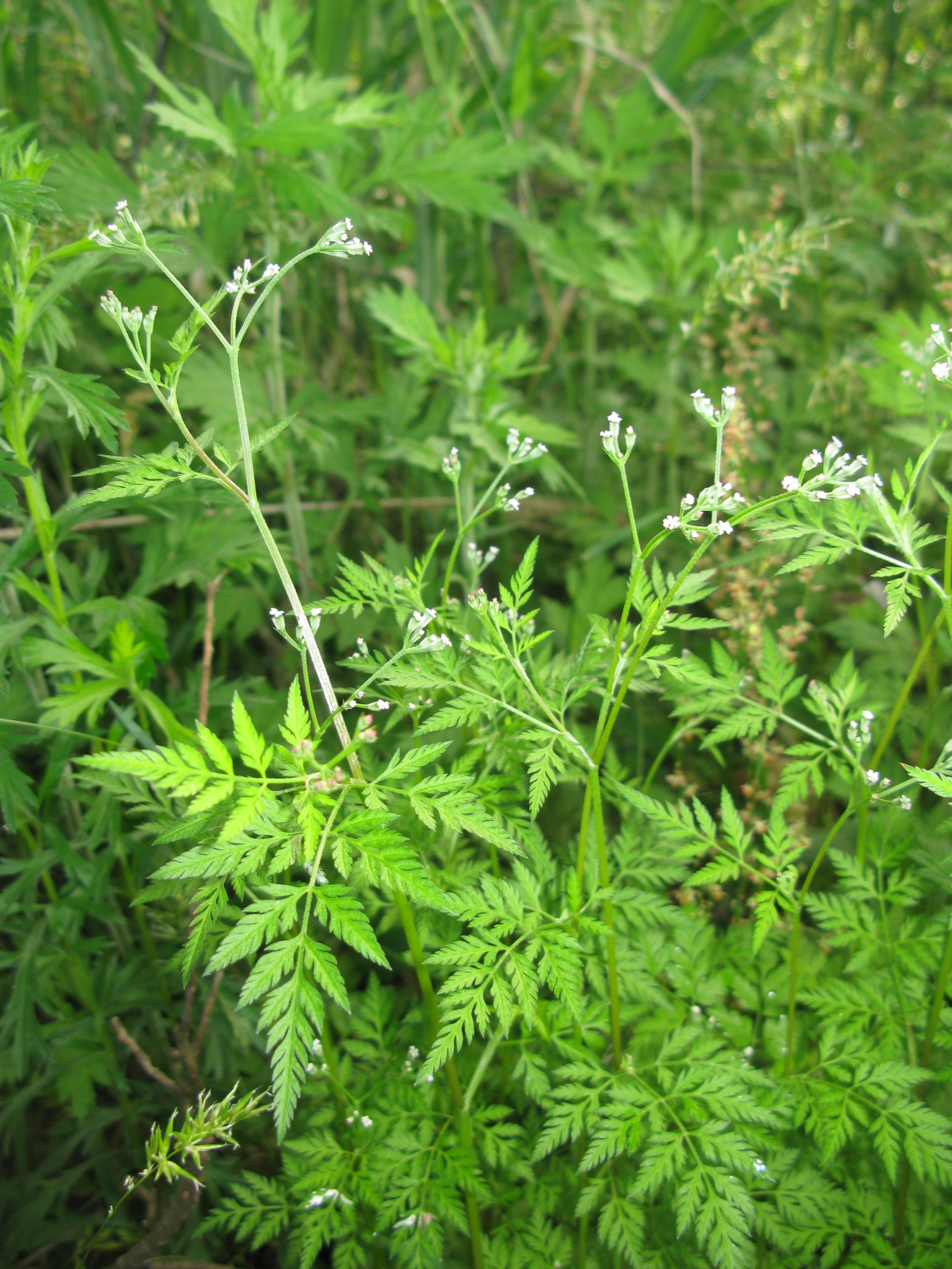 Torilis scabra, Aizu area, Fukushima pref., Japan